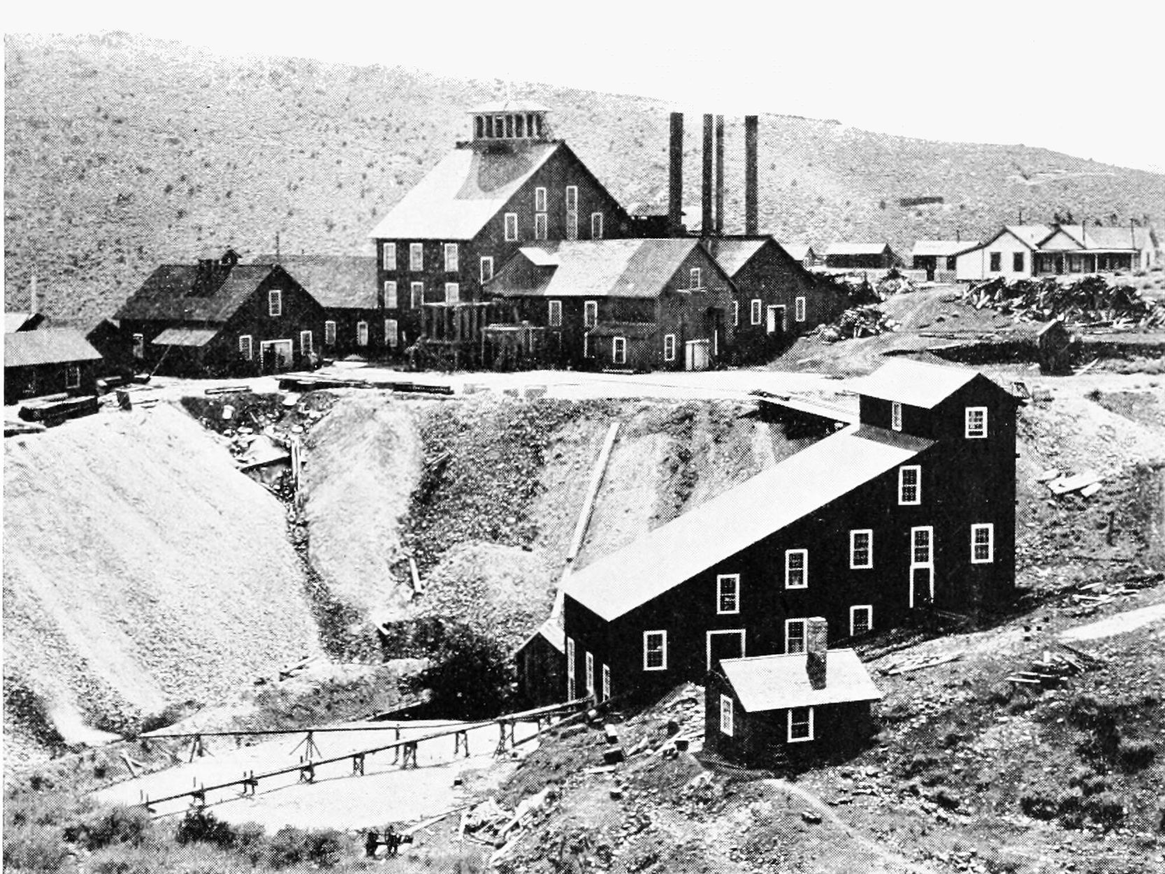 Alta mine mill and dump on Gold Hill